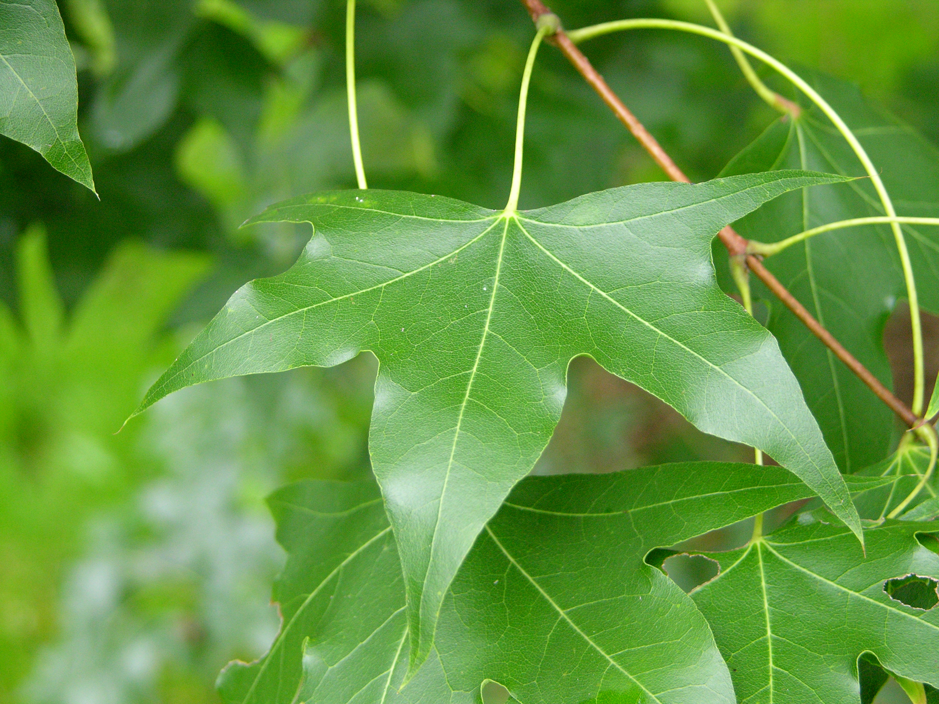 Photograph of a leaf of Acer truncatum (Shantung Maple). Photo taken at the Tyler Arboretum where it was identified.